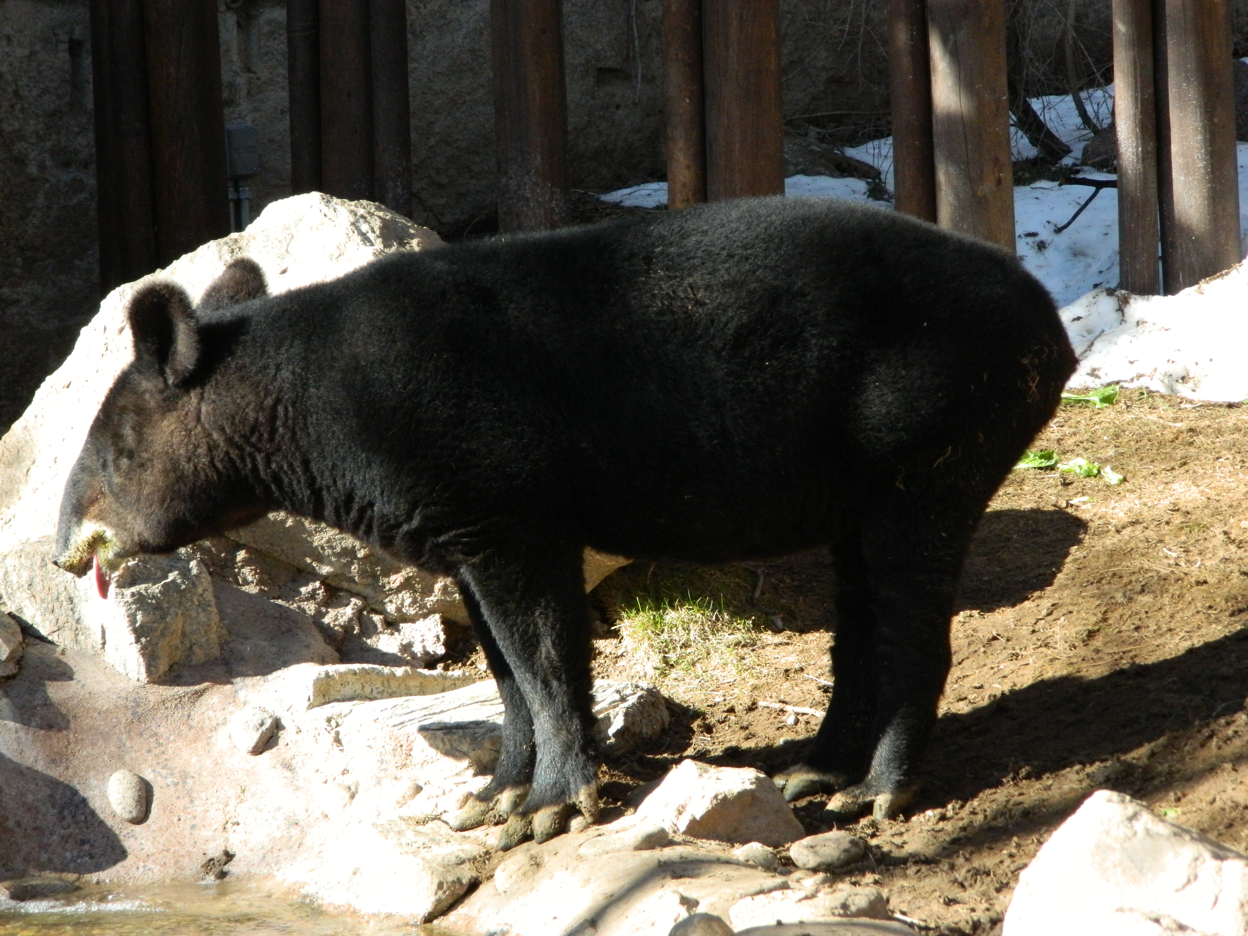 Mountain Tapir, Cheyenne Mountain Zoo, March 30, 2016